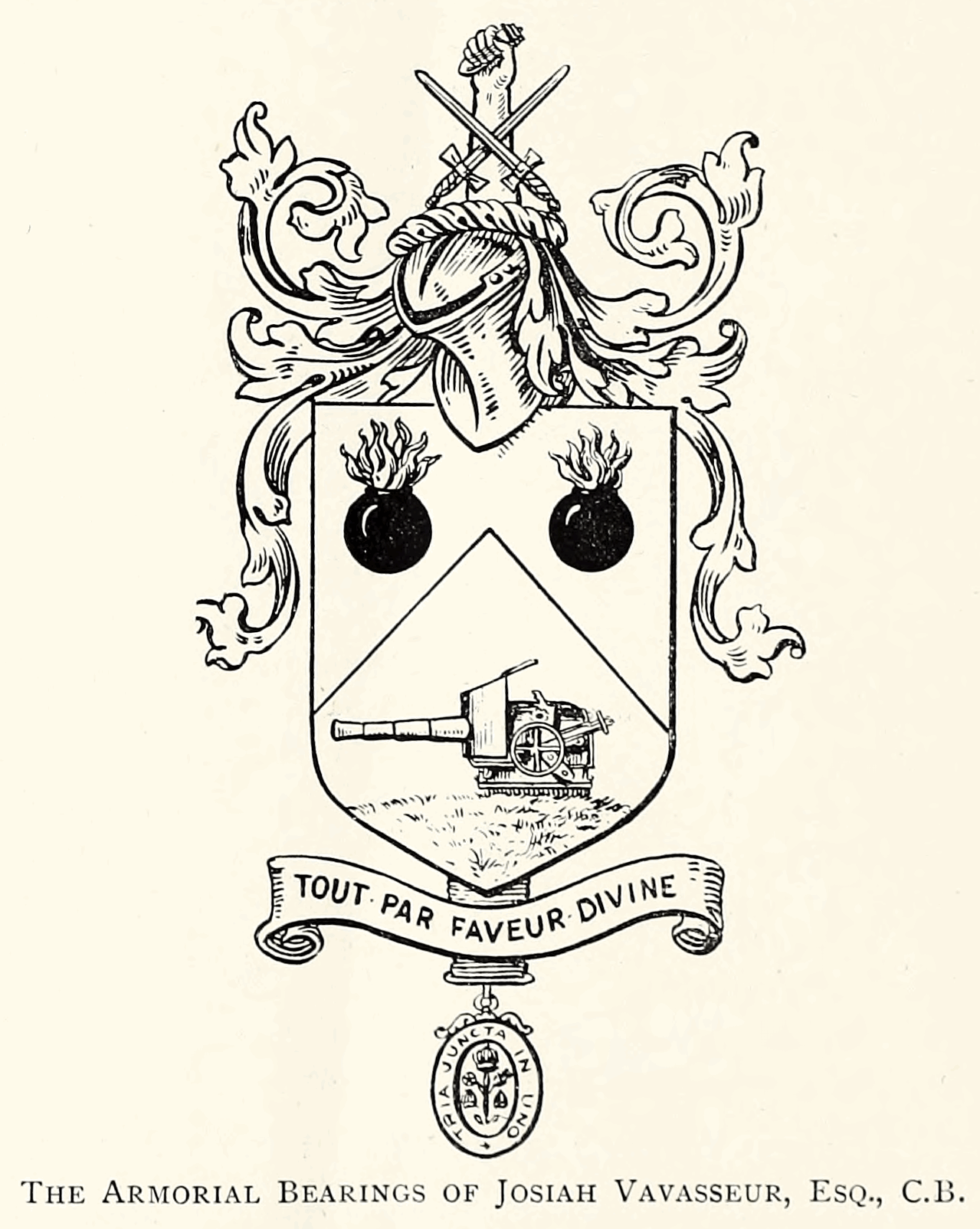 The coat of arms of Josiah Vavasseur was mentioned in The Genealogical Magazine vol. IV, page 141-142 by A.C. Fox-Davies as an example of heraldy that might be criticized as unheraldic, because of the Vavasseur gun mounting that featured prominently in it. But Fox-Davies found it fitting in the context. This illustration was uploaded from in the jp2 format and cropped to png.